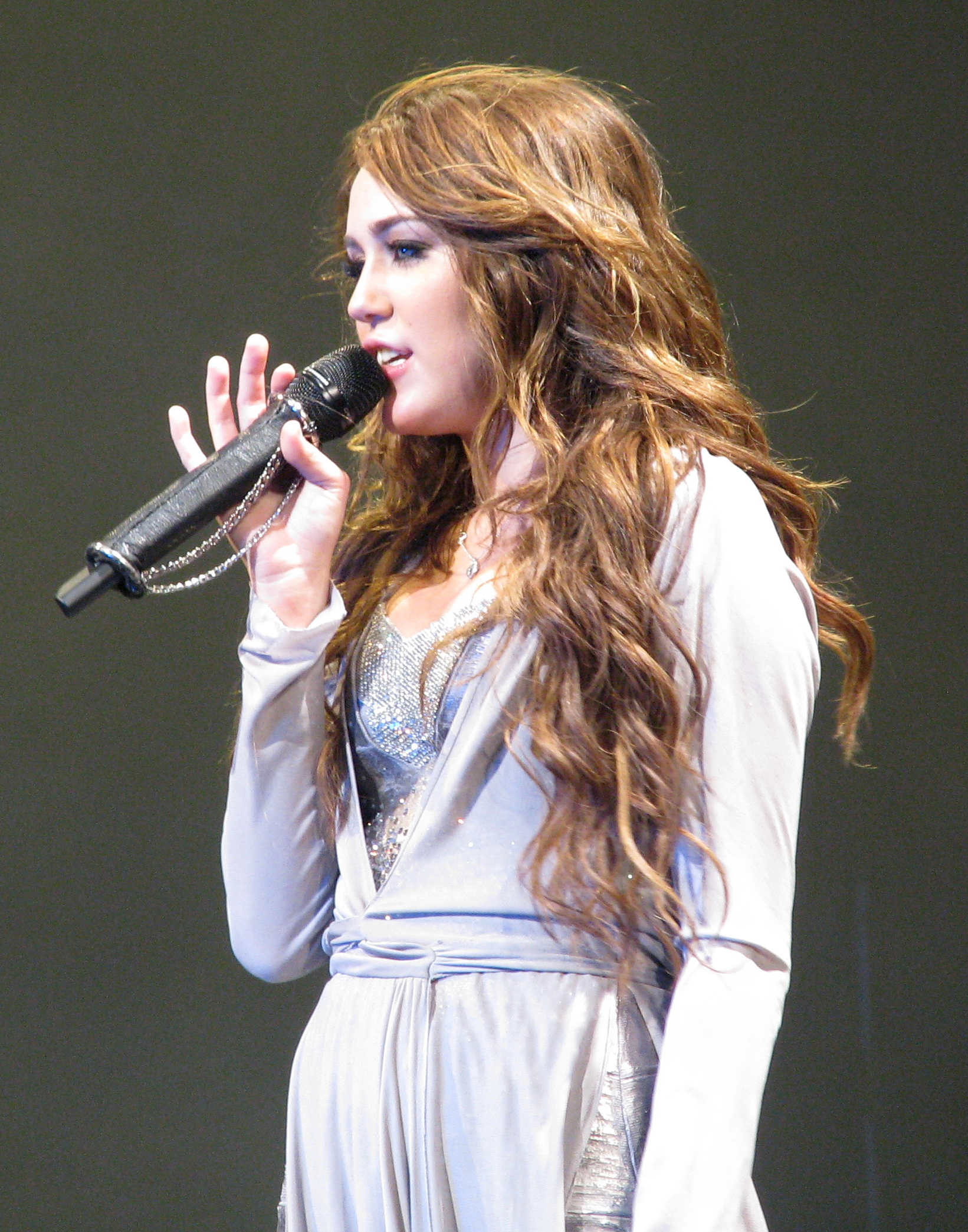 Pop singer Miley Cyrus performs "Bottom of the Ocean", wearing a silver gown, on September 14, 2009 at the Rose Garden in Portland, Oregon, as part of her 2009 Wonder World Tour.